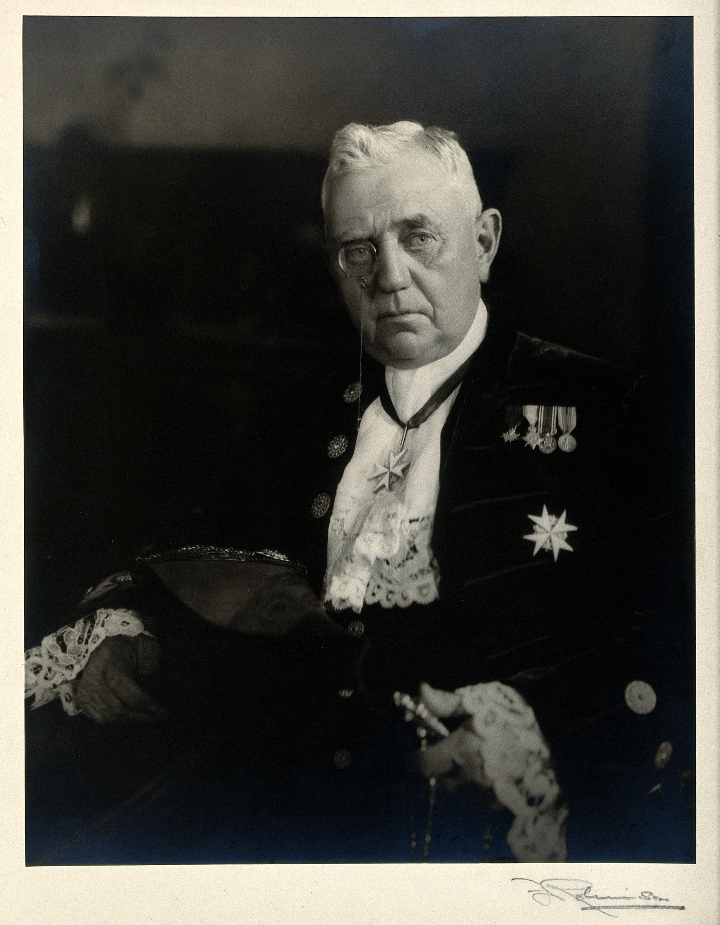 John William Springthorpe. Photograph by Rolinson. Iconographic Collections Keywords: portrait photographs